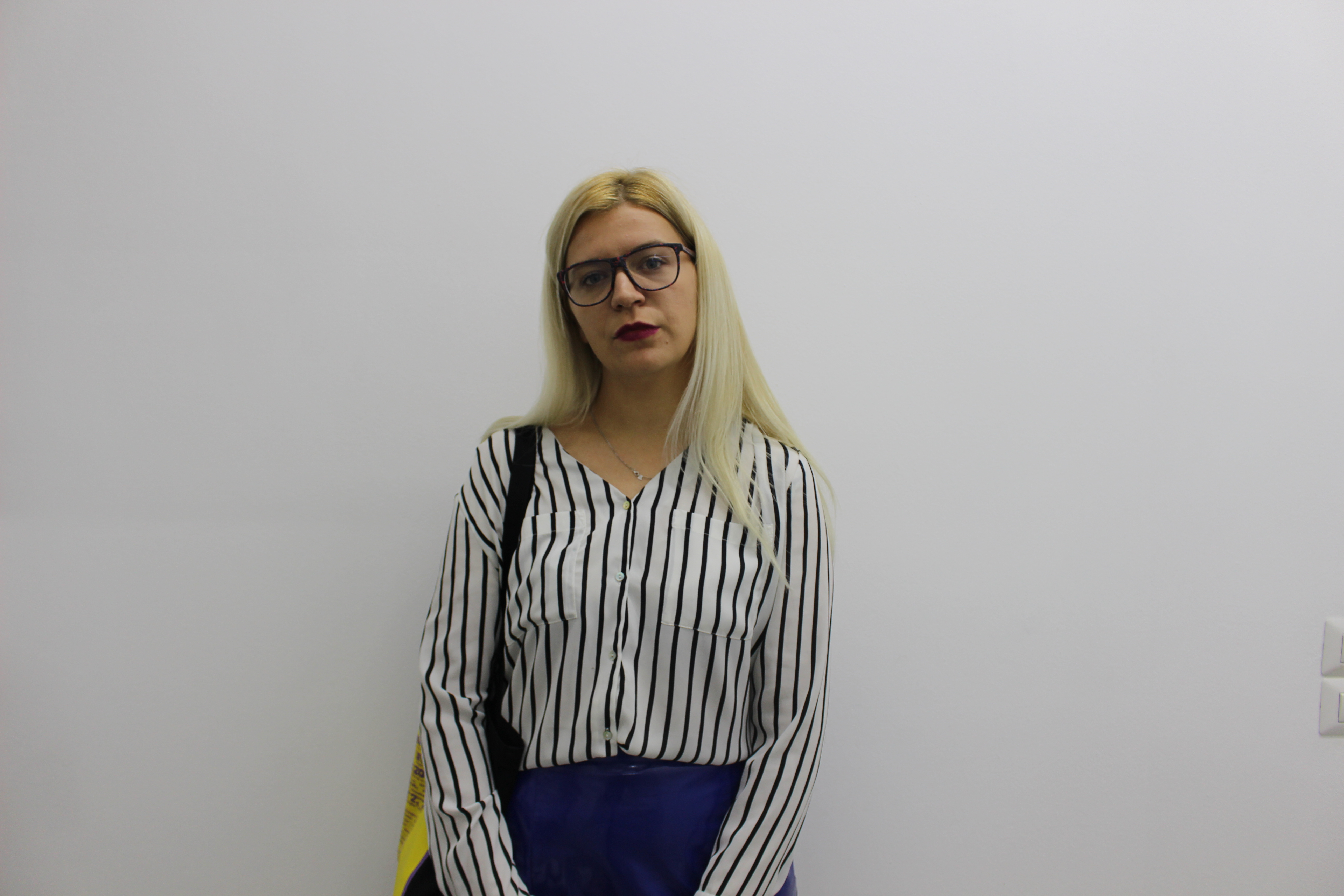 Vesa Qena